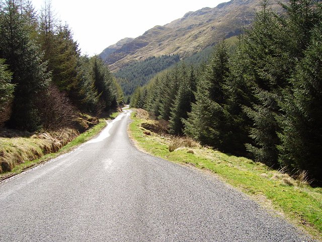 Hell's Glen. The B839 running down Gleann Beag or Hell's Glean. It's a single track road, but quieter than the other road into Lochgoilhead down Gleann Mor. The glen is almost entirely planted by privately managed sitka plantations. The road appears to very popular with motorcyclists.